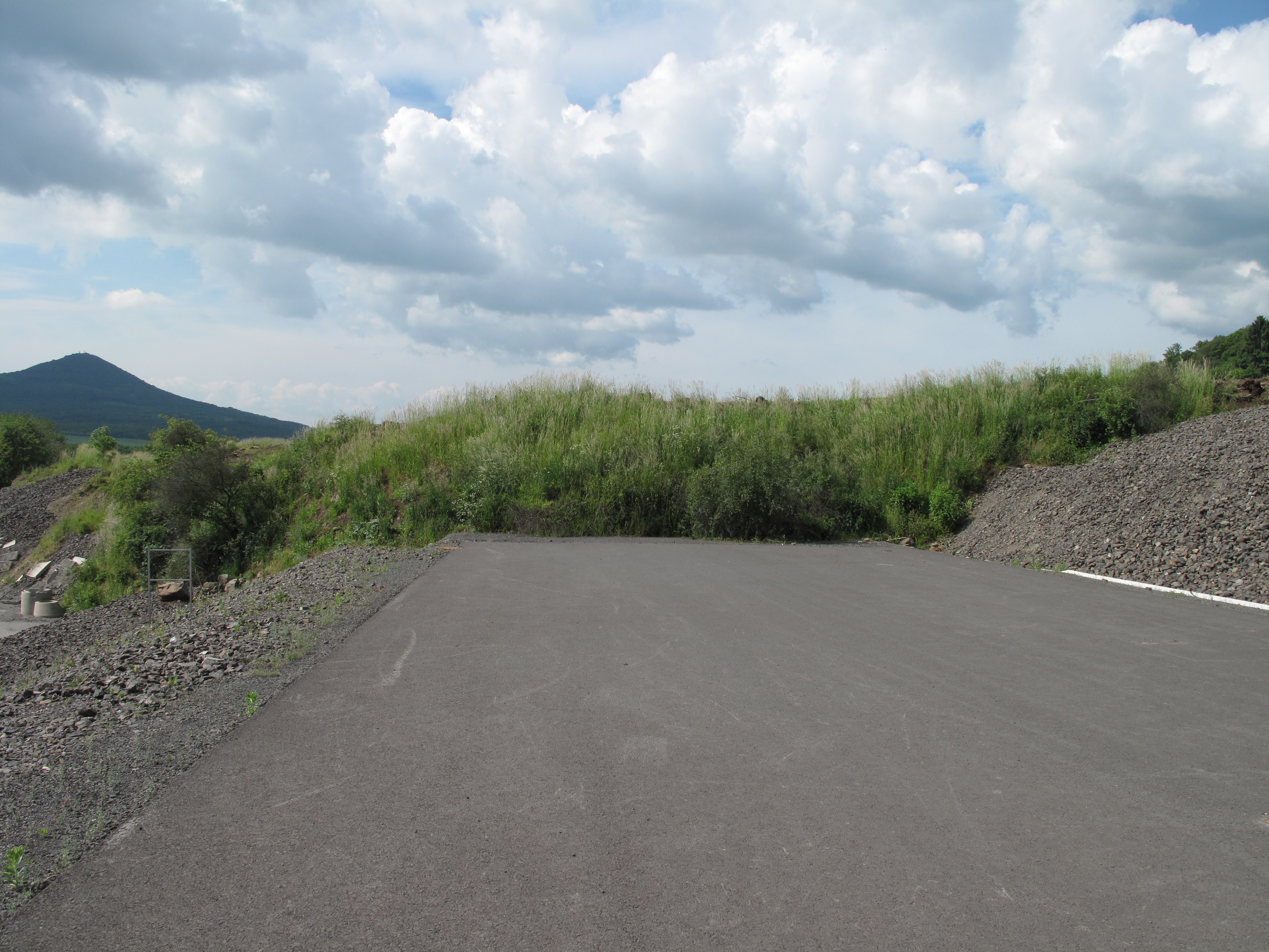 D8 highway covered by soil near Dobkovičky village, Litoměřice District, Czech Republic.